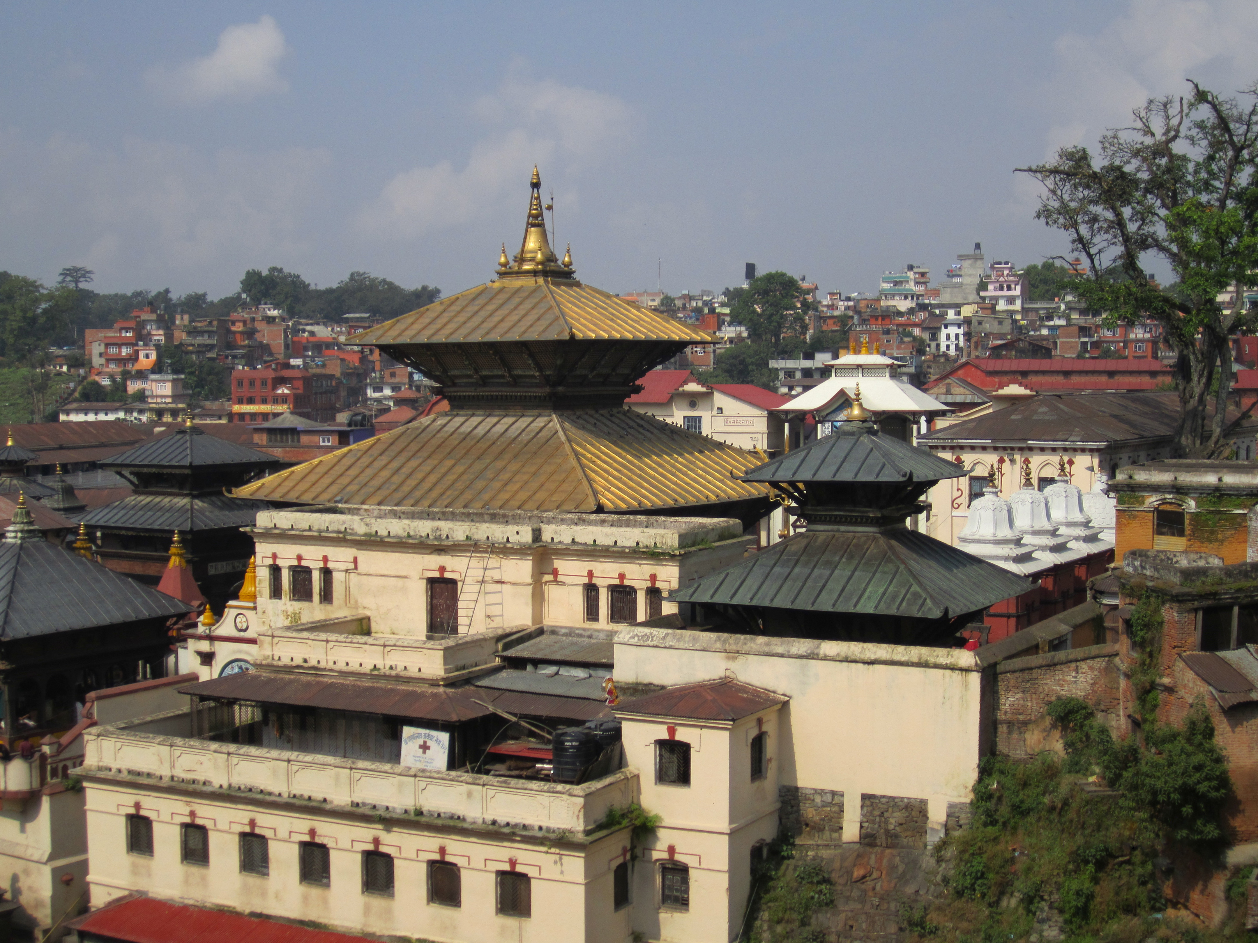 This is an image of the pashupati nath temple in Kathmandu.